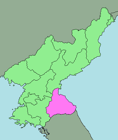 area map of Kangwon Province